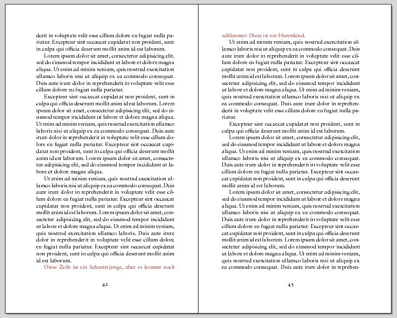 widow and orphan (with German descriptions)